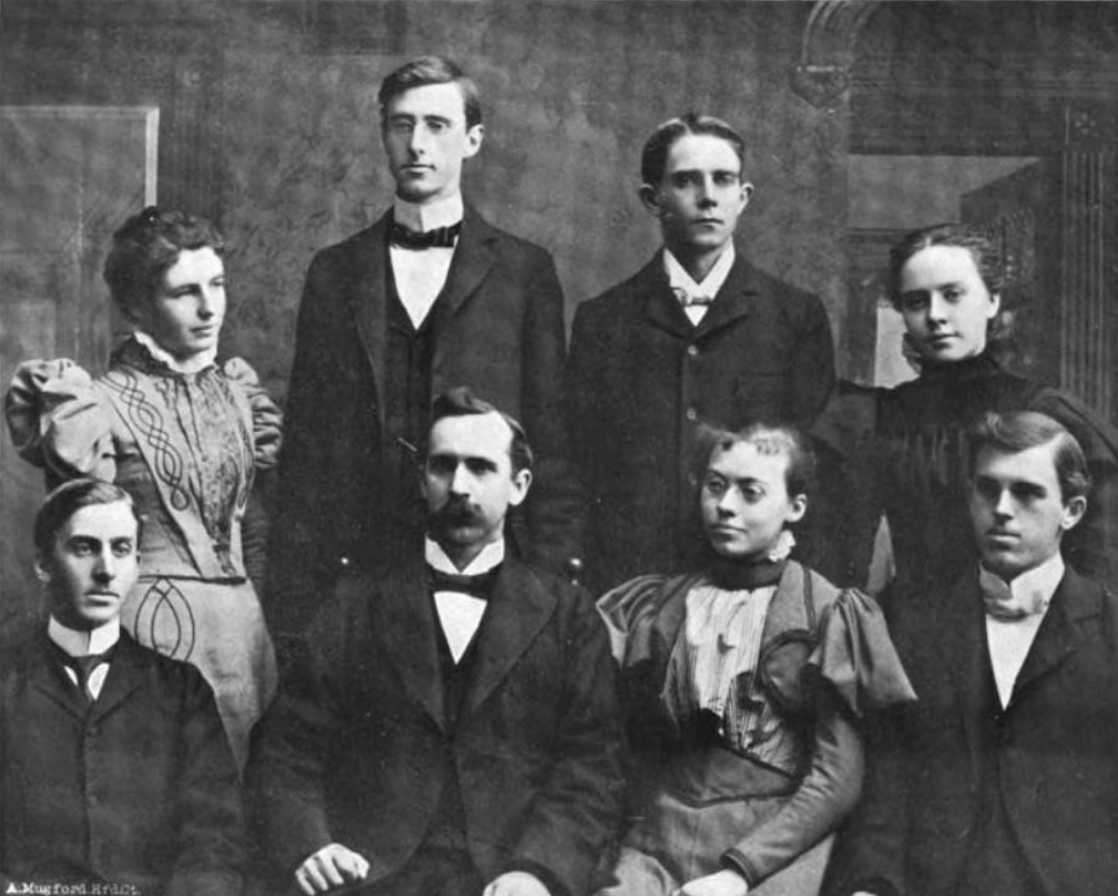 Board of The Bates Student, 1897 Top row: M. B. Maxim, Local Editor; L. B. Costello, Business Manager; O. H. Toothaker, Alumni Editor; A. M. Tasker, Exchange Editor Bottom row: H. W. Blake, Assistant Manager; Frank Pearson, Literary Editor; S. M. Brackett, Book Review Editor; R. H. Tukey, Local Editor